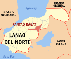 Map of the Lanao del Norte showing the location of Pantao Ragat